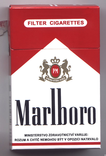 Marlboro Gold in Hungary